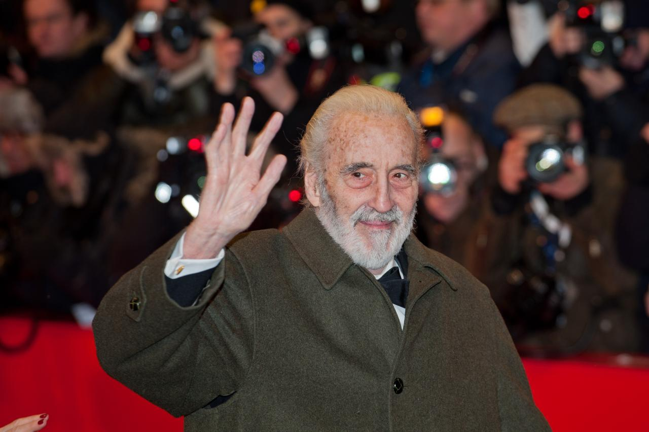 British actor Sir Christopher Lee, Opening of the 62nd Berlin International Film Festival